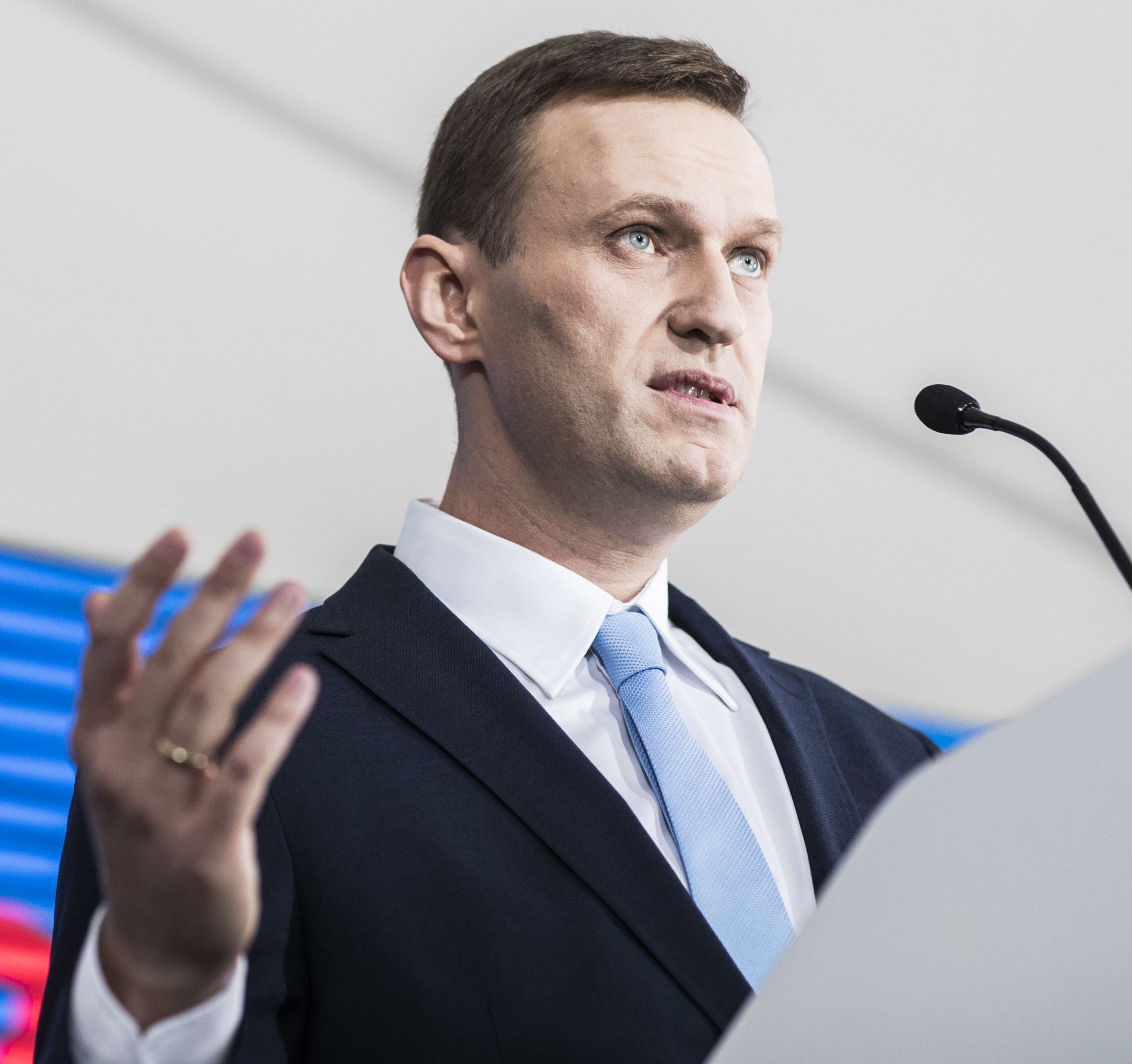 Alexei Navalny speaks to his supporters in Moscow after they initiated his longshot attempt to be in the ballot on the upcoming presidential elections